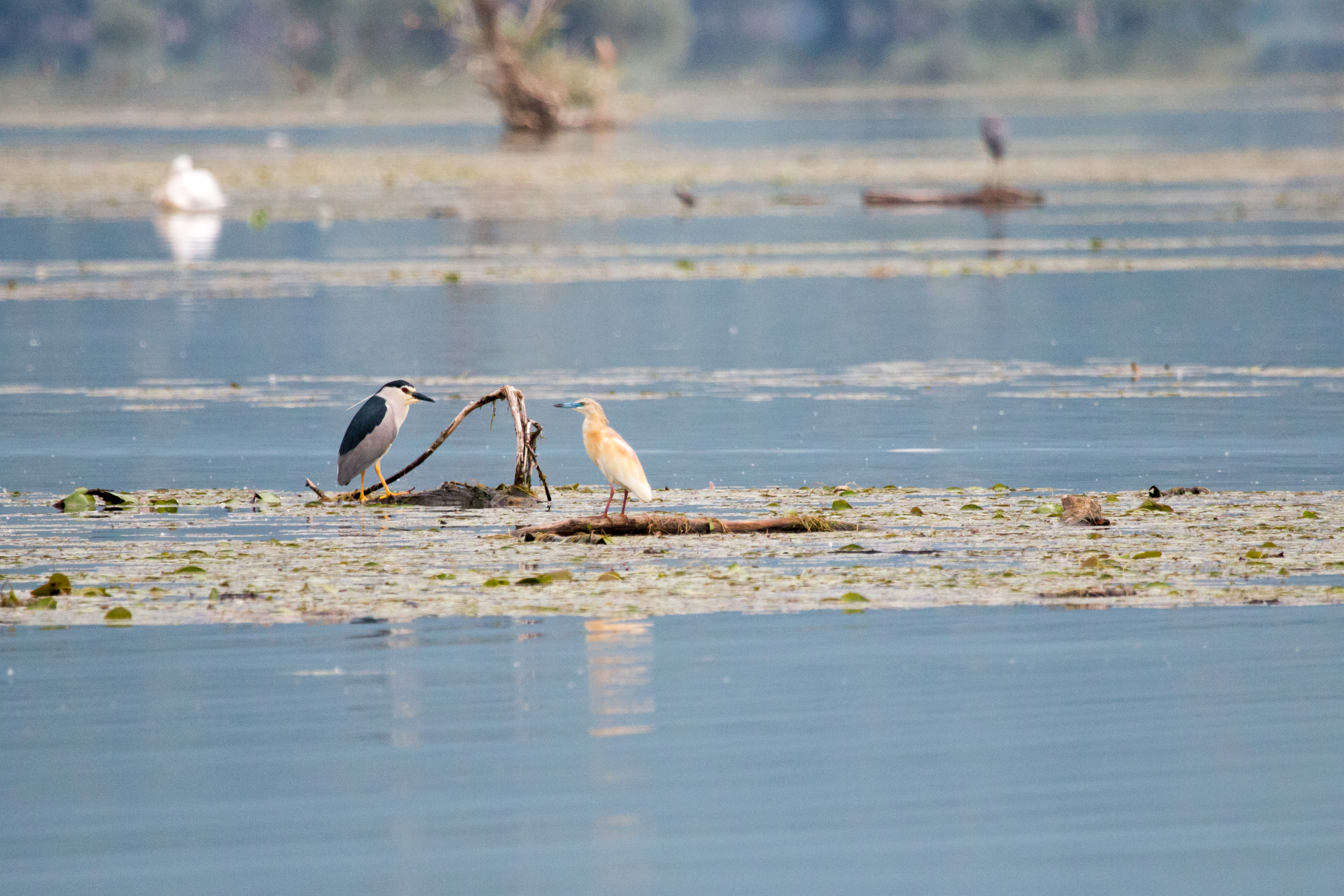 Natural life in Kekrini lake, Serres, Greece This is a photography of Natura 2000 protected area with ID GR1260008